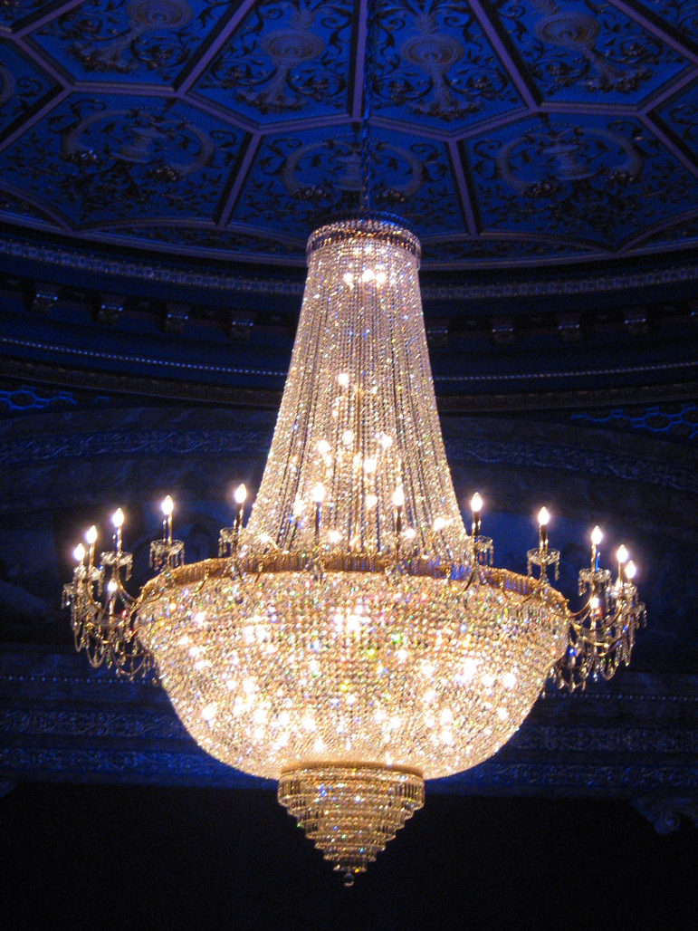 Chandelier in the auditorium at the Royal Lyceum, Grindlay Street, Edinburgh